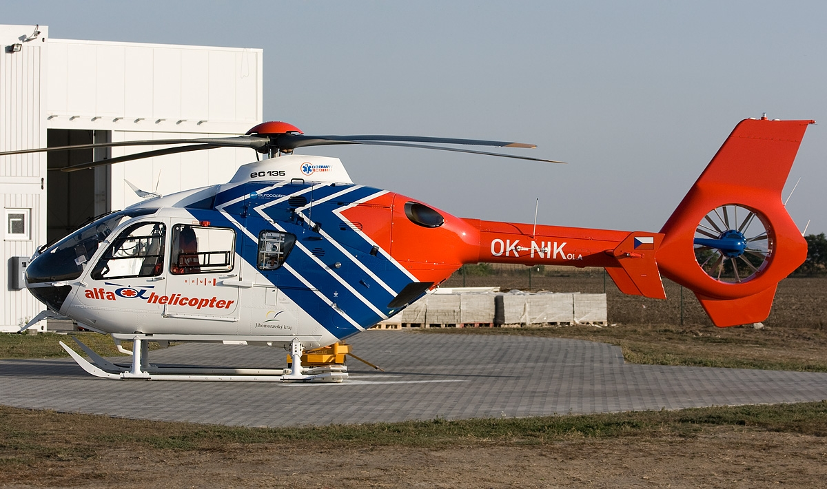 Eurocopter EC-135T2+ owned by Alfa Helicopter in Brno-Turany. Fly as Christoph 04.